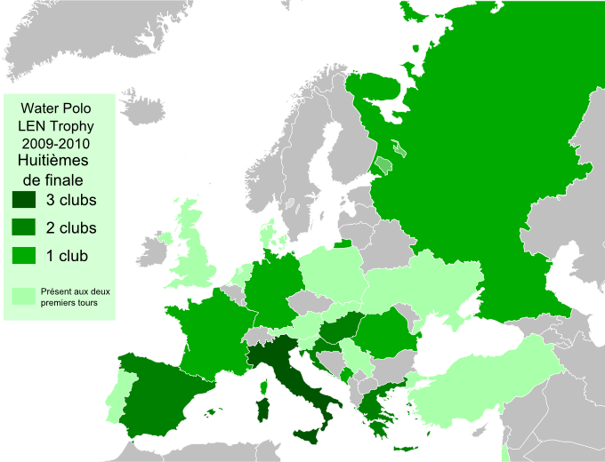 Water Polo Male LEN Trophy 2009-2010's eighth finals by number of clubs per country.